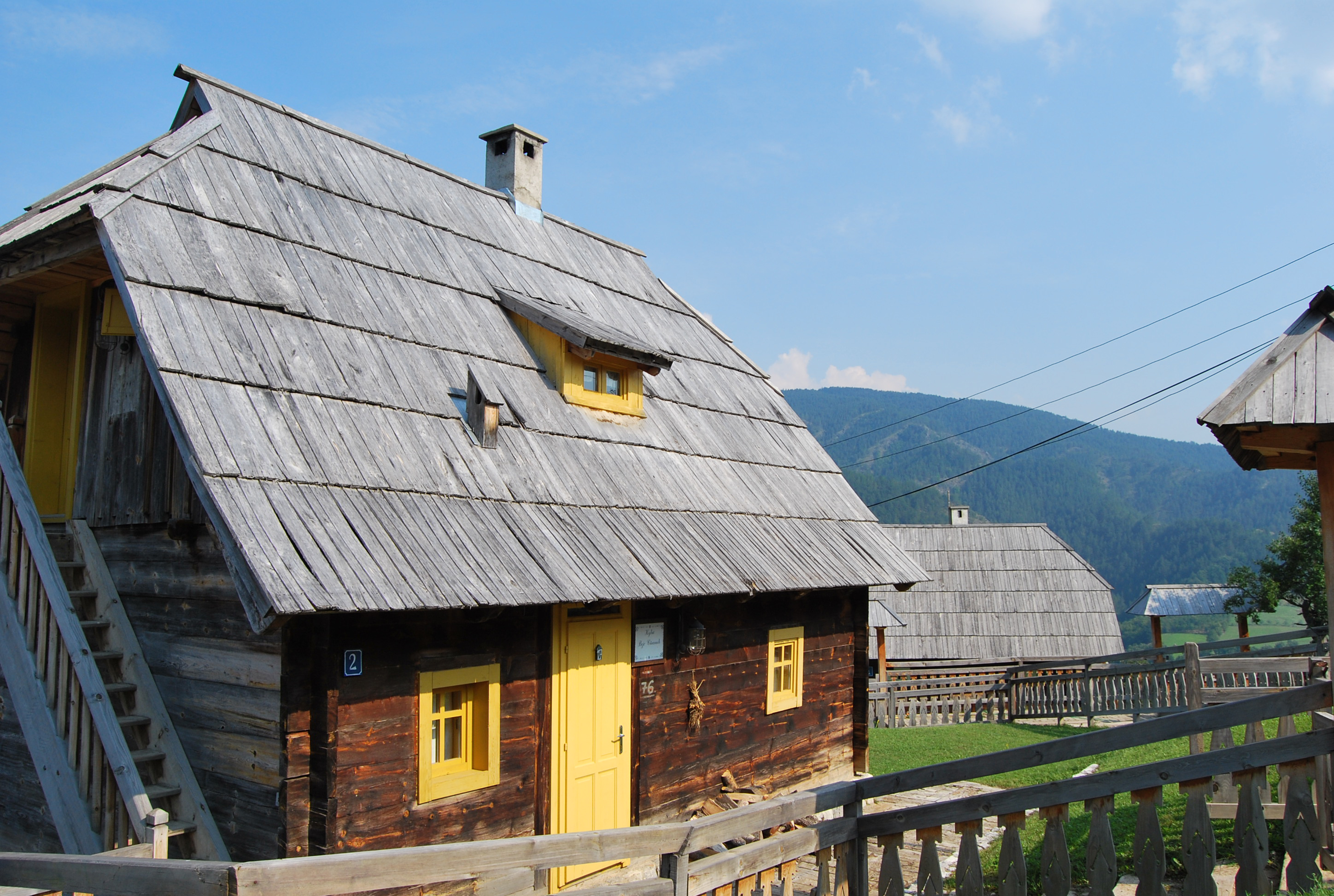 Wooden House in Drvengrad.